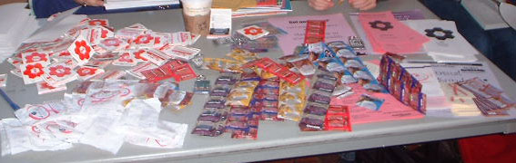 A table with a bunch of condoms on it.